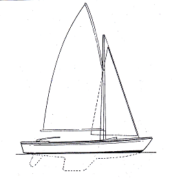 Sketch Fly Tour open sailing boat